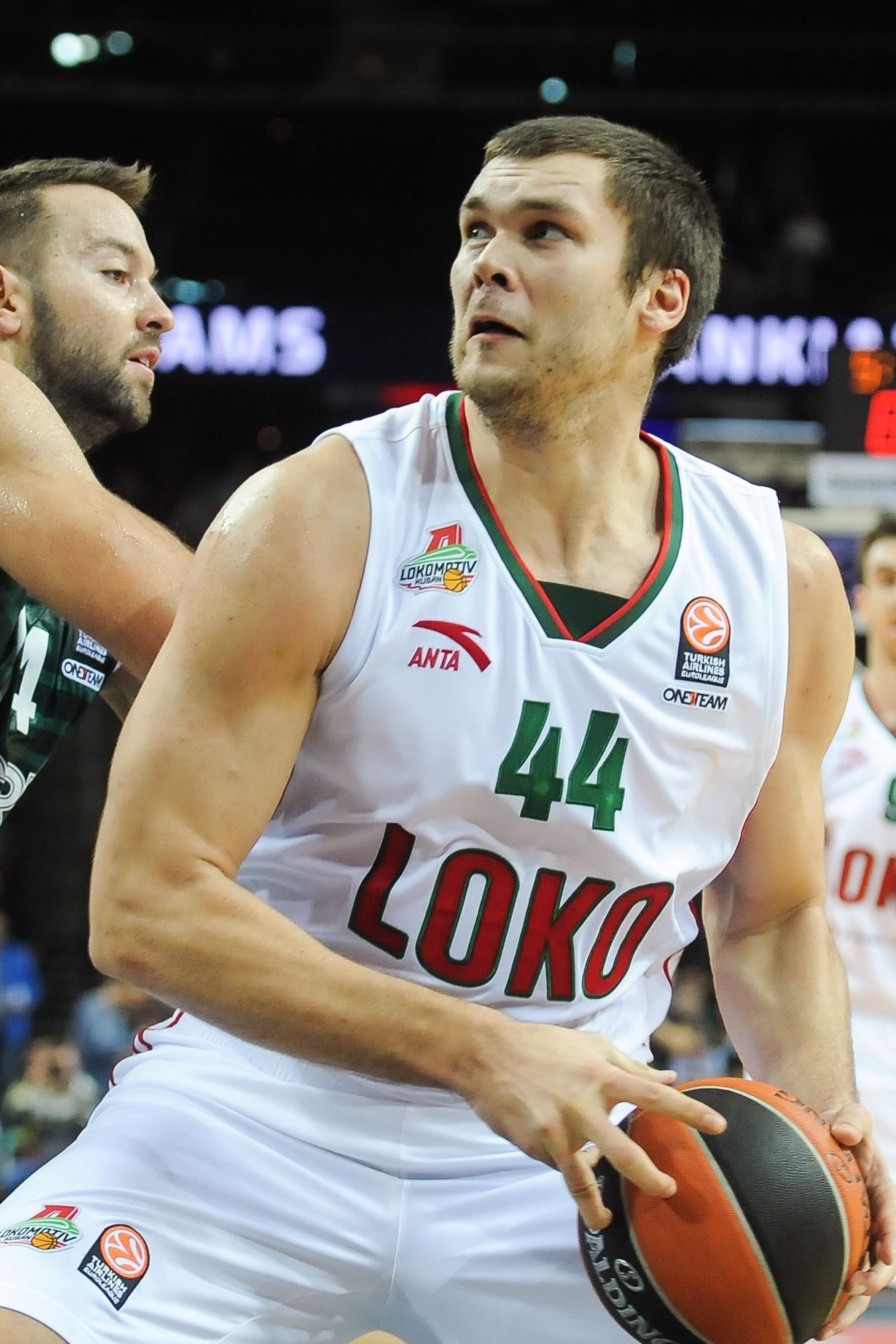 Kyryllo_Fesenko_Loko